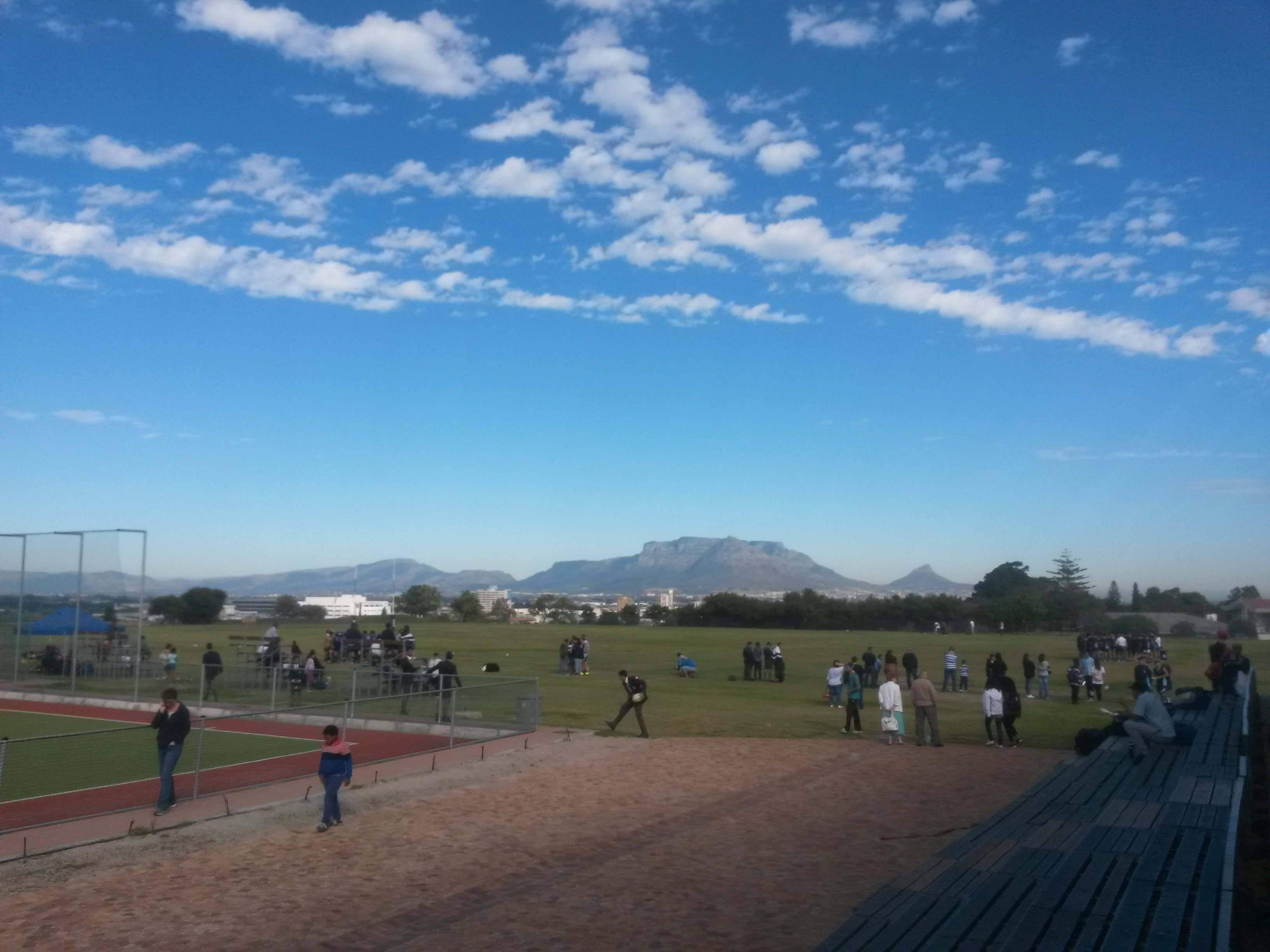 Settlers High School Rugby field